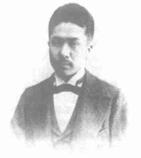 A photo of Jujiro Shikinami (1872-1965), a Japanese anatomist, taken in 1901.